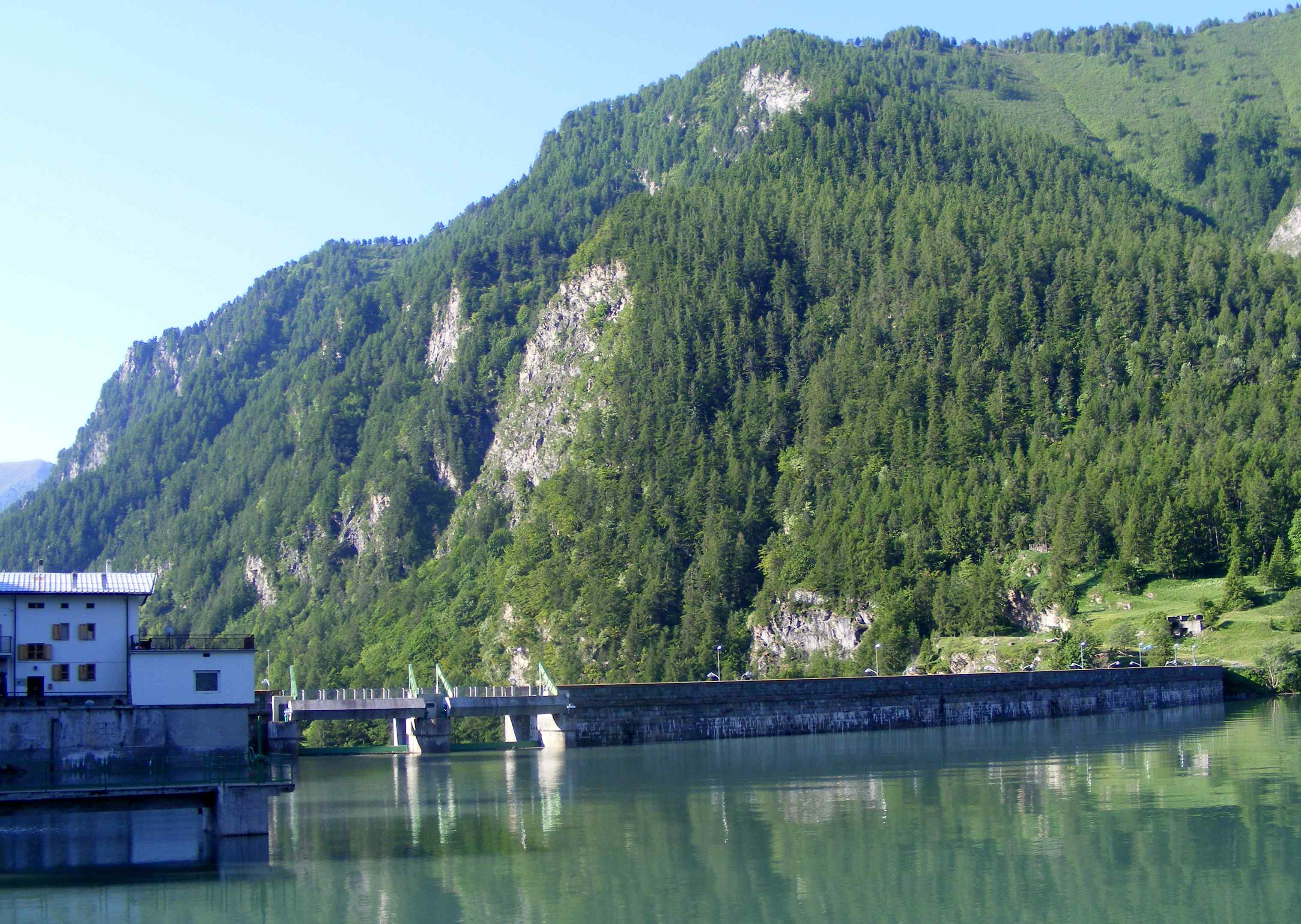 Pontechianale dam on Varaita creek (CN, Italy)